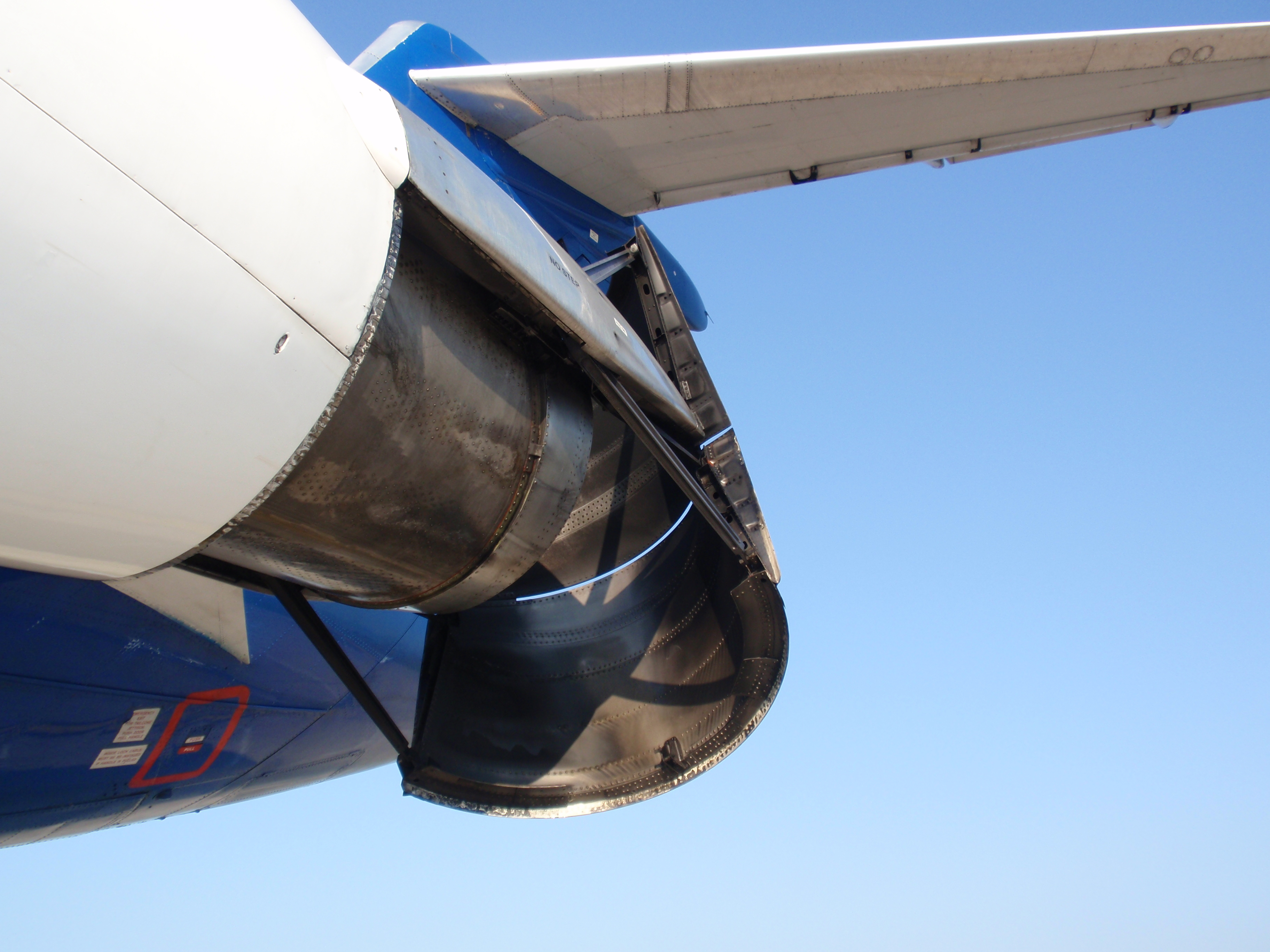 Thrust reverser on MD-82